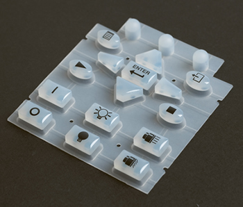 Example of silicone rubber keypad in translucent silicone with legends